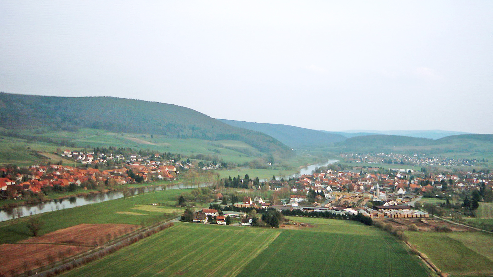 Aerial photography from Hemeln (left river bank) and Reinhardshagen (right river bank) , Germany